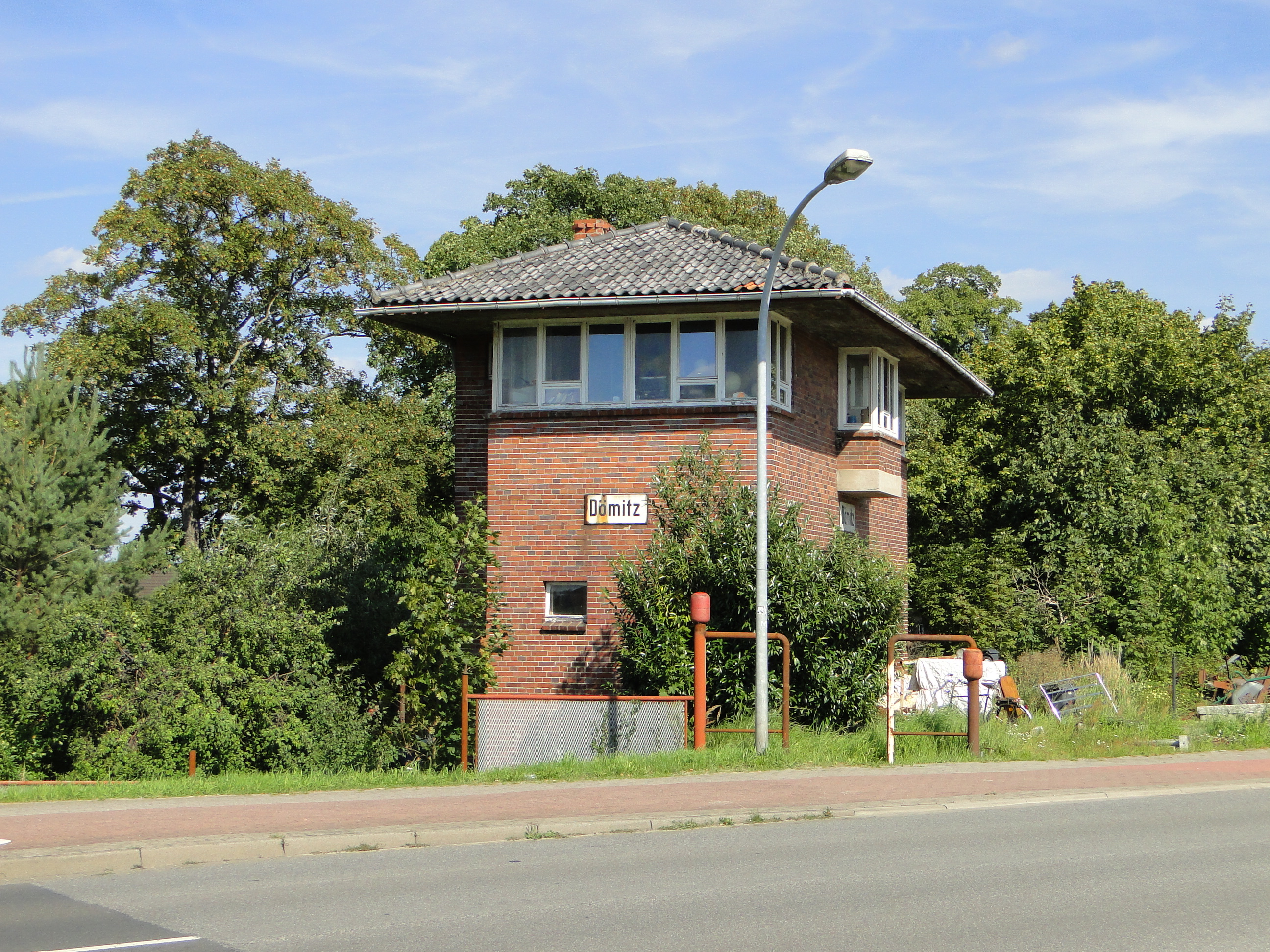 Former signal box between train station and harbour in Dömitz.